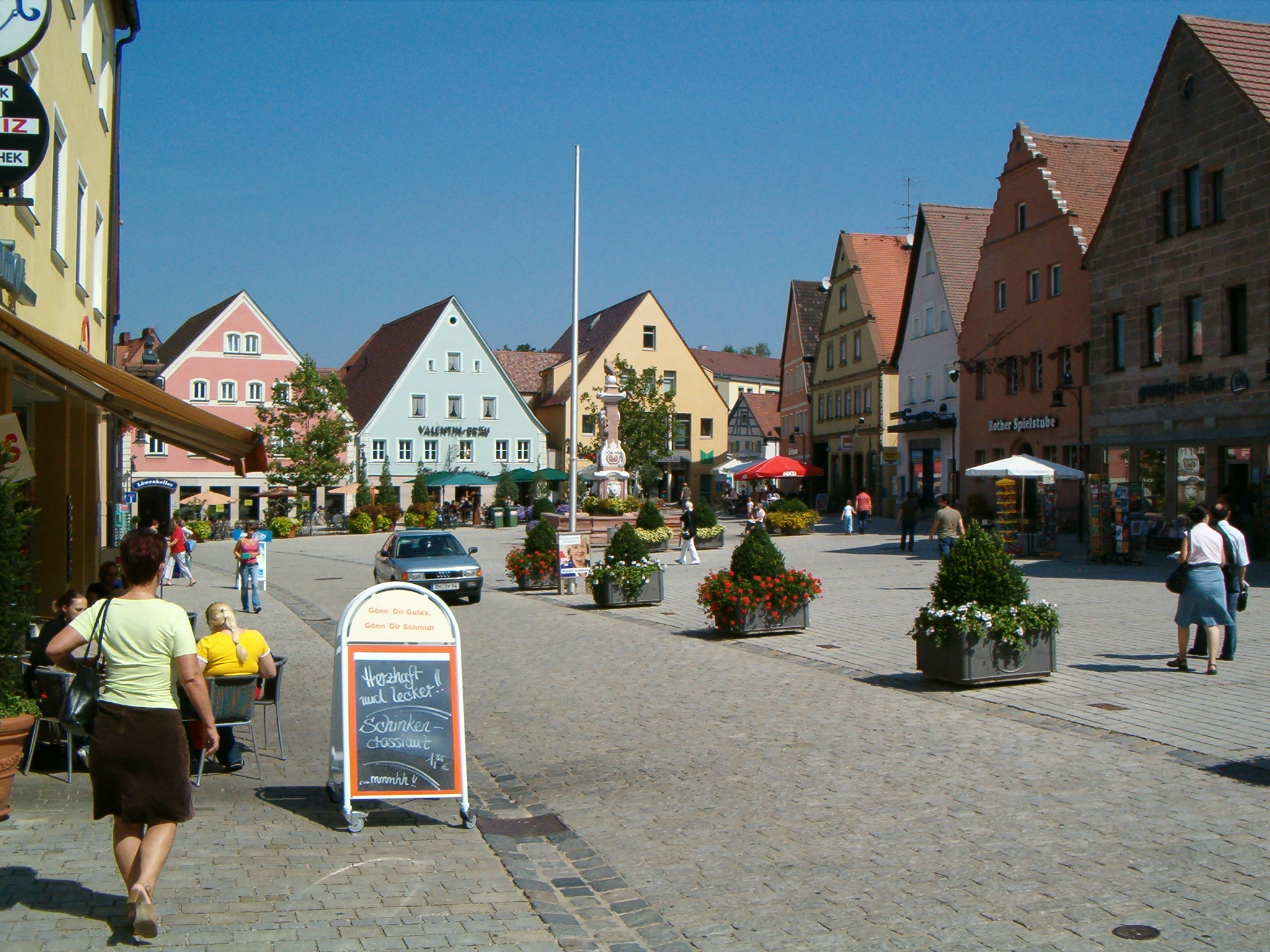 picture of market square, Roth, Bavaria, Germany, summer 2005